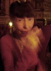 Brigitte Fontaine, French female singer